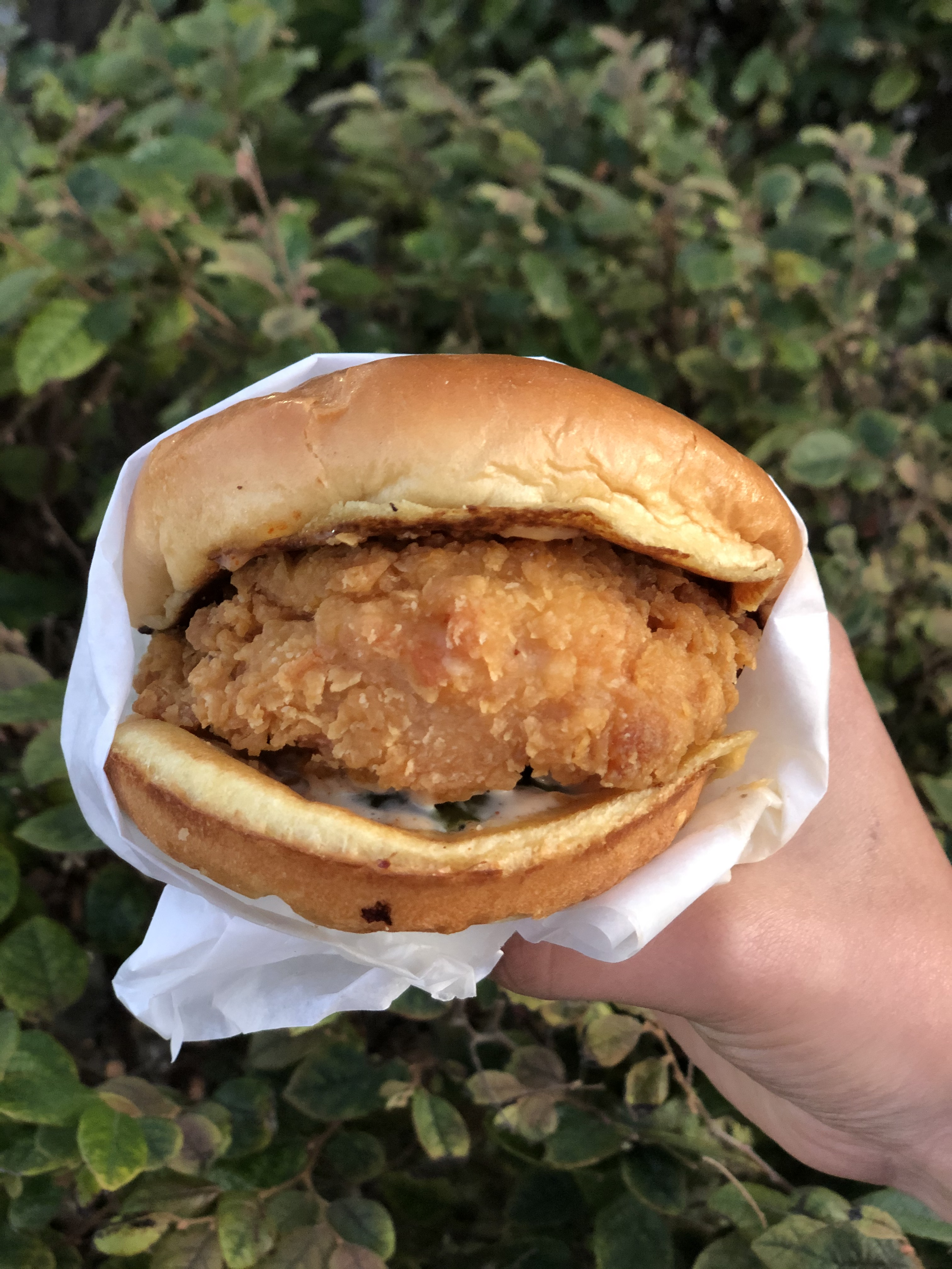 chicken sandwich picture for free use